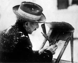 Bentley removing emulsion from a glass plate